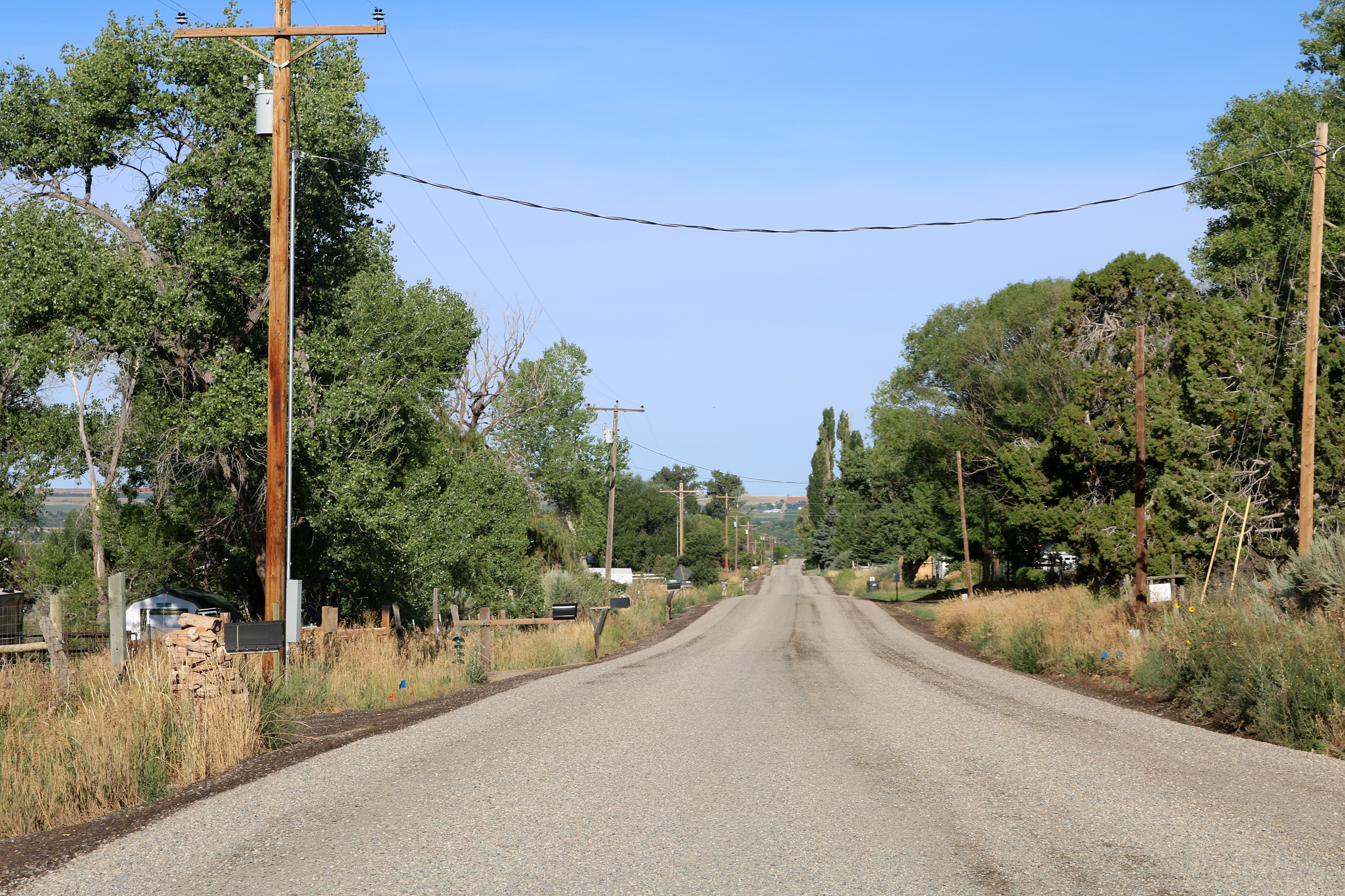 A general view of the unincorporated community of Lebanon, Colorado, in Montezuma, County. The view is to the west along County Road T, from Lebanon Road.